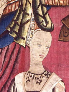 Detail of a tapestry. An art historian suggests, hypothetically, it could represent Maria of Cleves, an other one Anne of Cyprus ?